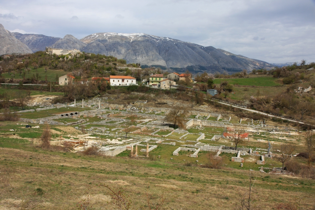 Excavations of Alba fucens